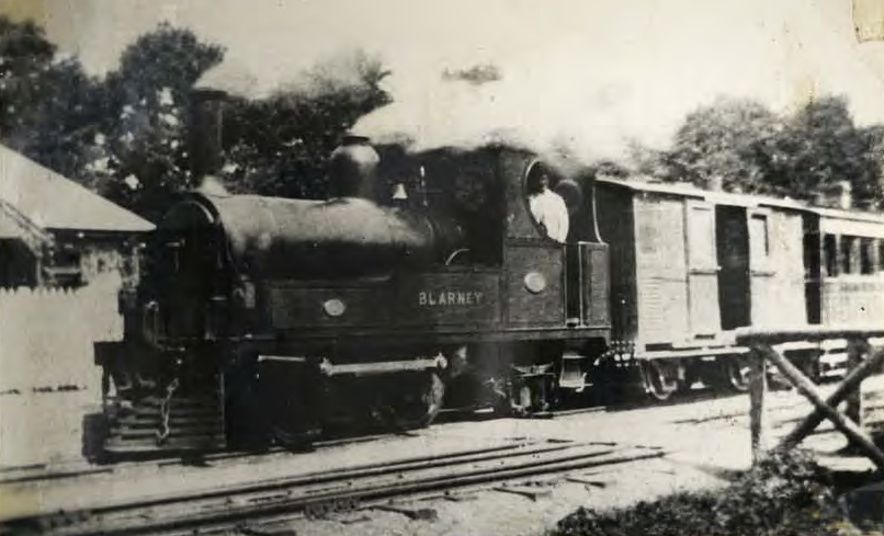 The Cork and Muskerry Light Railway locomotive #4 Blarney at the Blarney terminus in 1888. The CMLR were to cut up this locomotive in 1911 and it was replaced with a larger Blarney locomotive which also was not to last long.